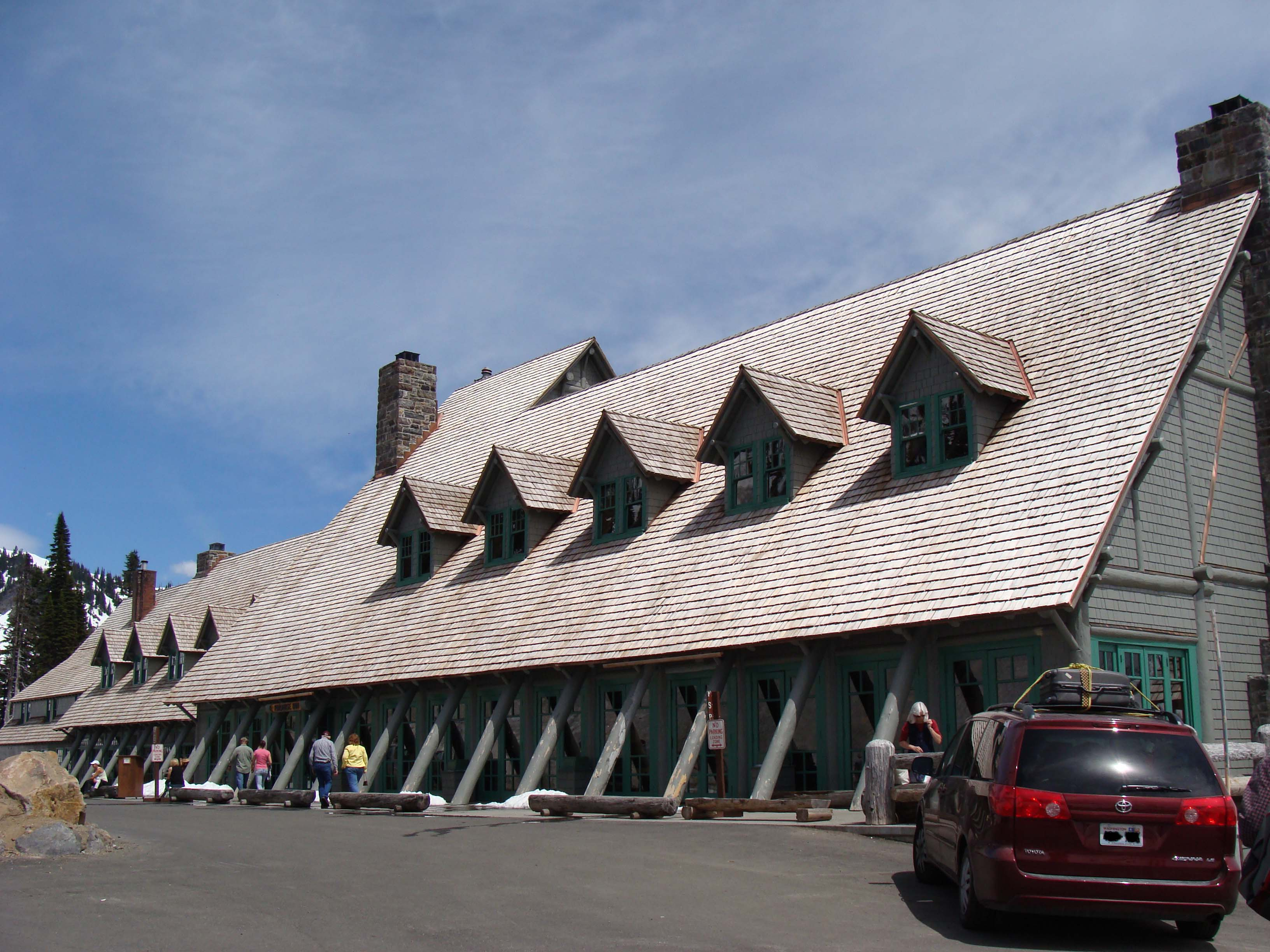 Paradise Inn after remodel